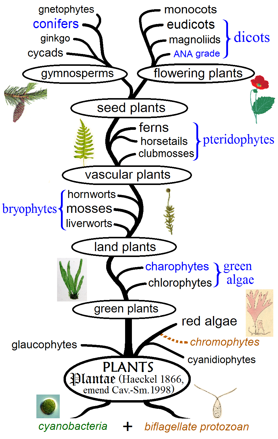 Phylogenetic plant tree, showing the major clades and traditional groups. Monophyletic groups are in black and paraphyletics in blue.